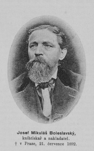 Portrait of Josef Mikuláš Boleslavský, Czech publisher, writer and translator.